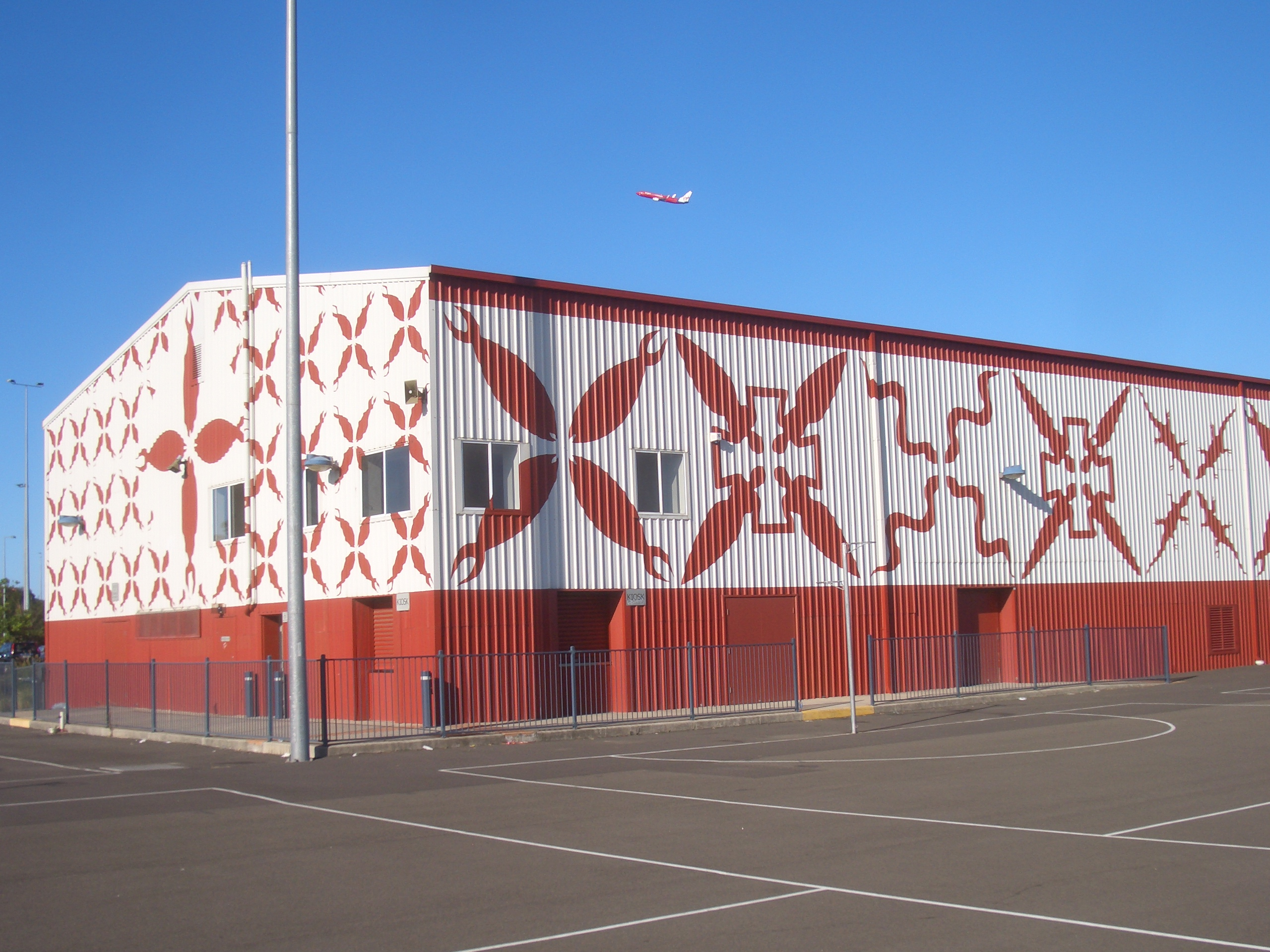 Robyn Webster Sports Centre, Tempe, New South Wales featuring Aboriginal mural 'Gift Given'